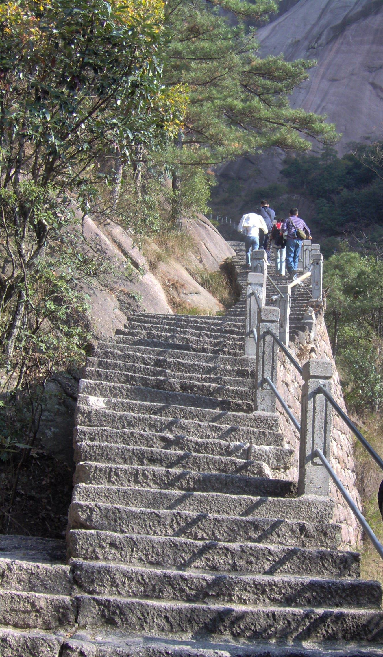 Steps carved into the rocks at Huangshan